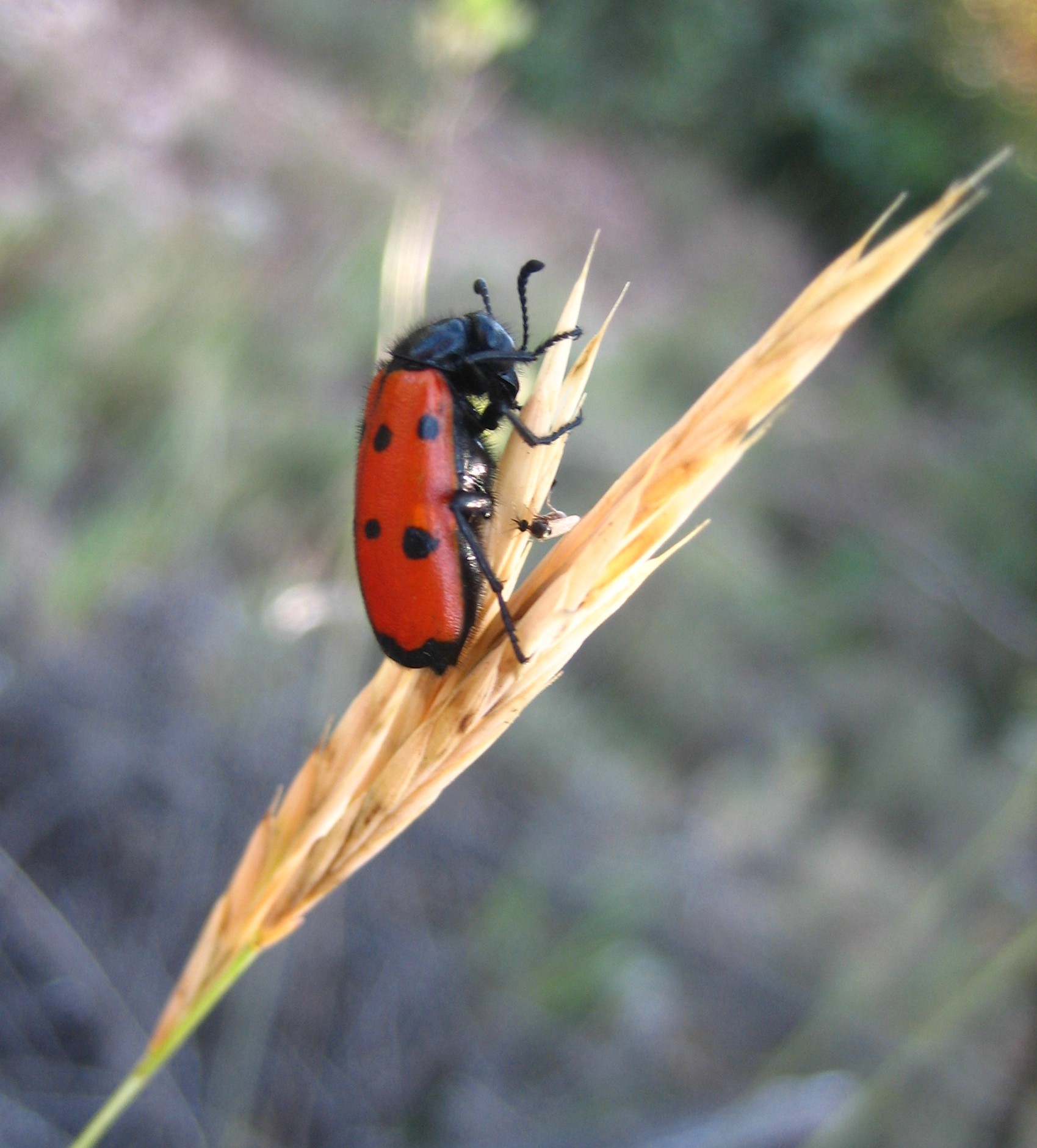 Mylabris quadripuntata at Formiche Alto (Teruel)